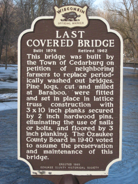 Covered Bridge, Cedarburg, Wisconsin - sign